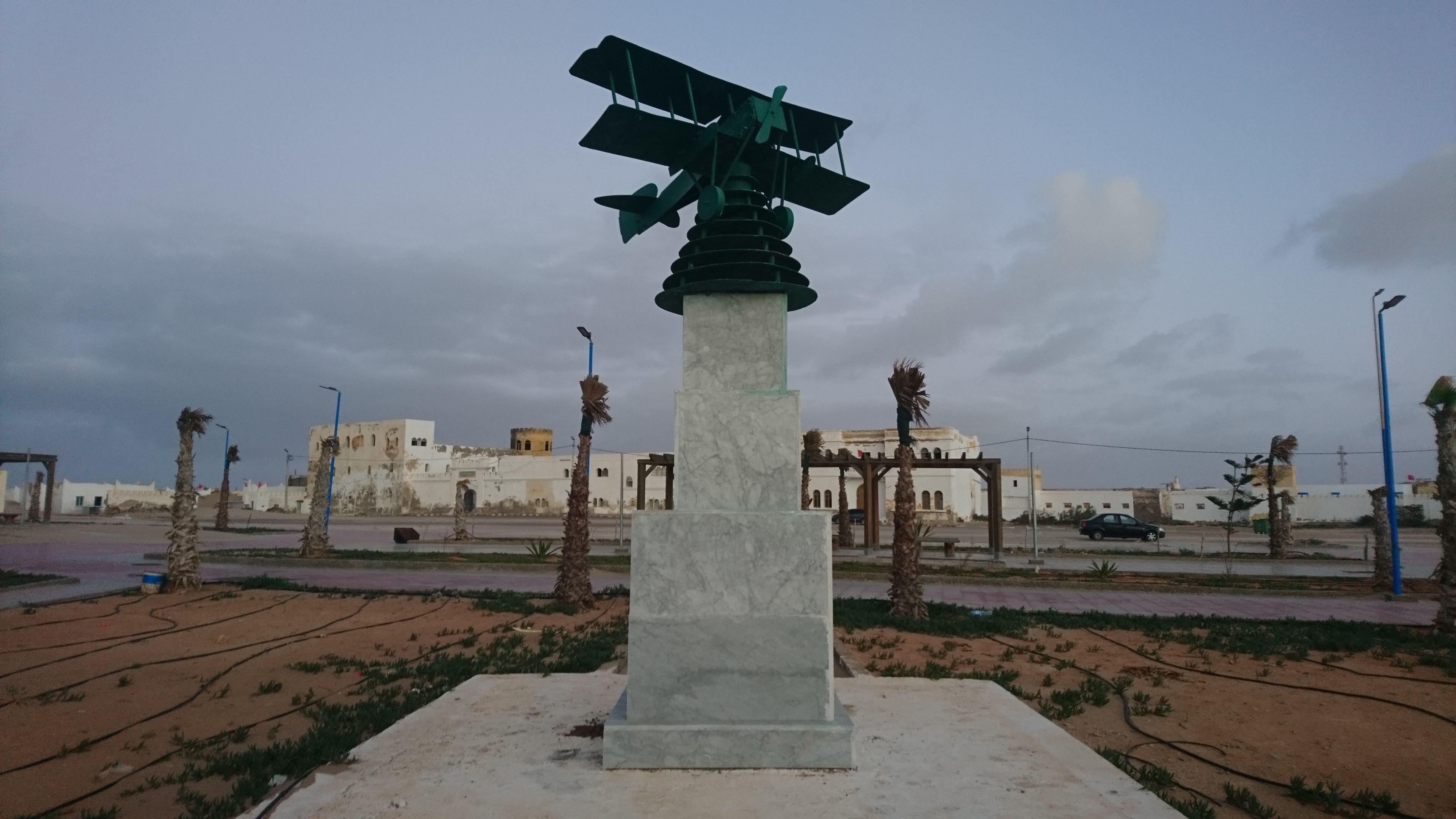 Monument of Aéropostale in the city if Tarfaya.